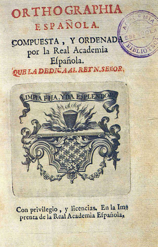 Title page of the first edition of the Orthographía española, Madrid 1741